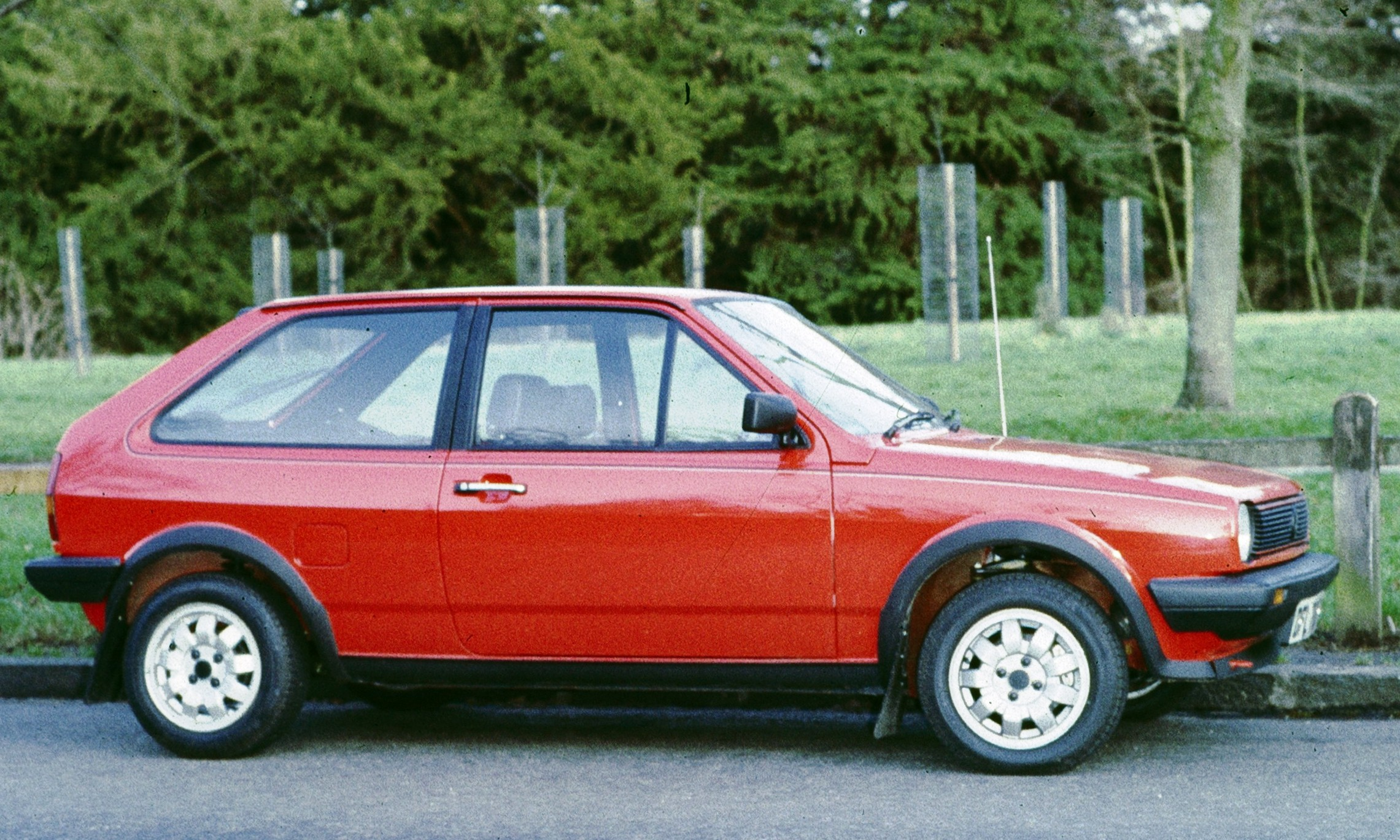 Volkswagen Polo II Coupe when too new to have muddy wheel arches